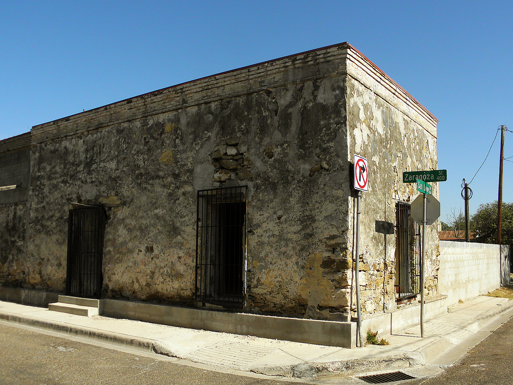 Sandstone Border Vernacular House on Zaragoza Street.